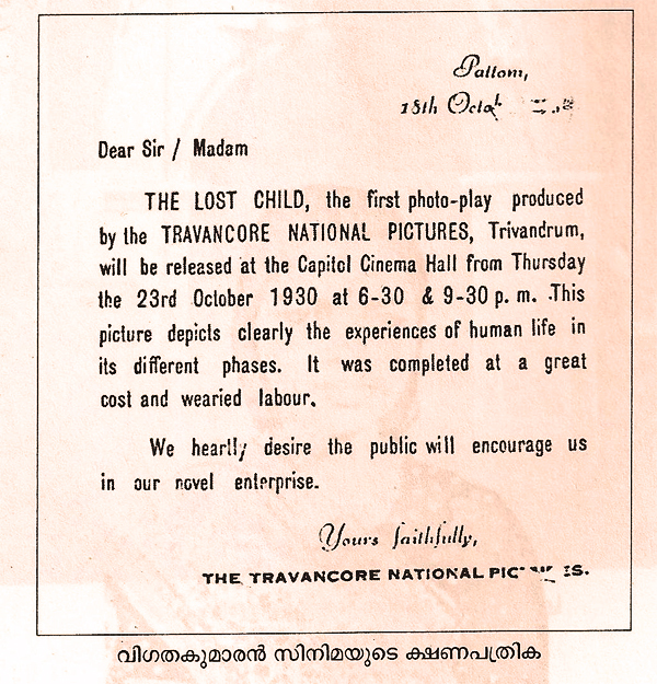 Invitation Letter for the release of "Vigathakumaran" held at Capitol Cinema Hall, Trivandrum.